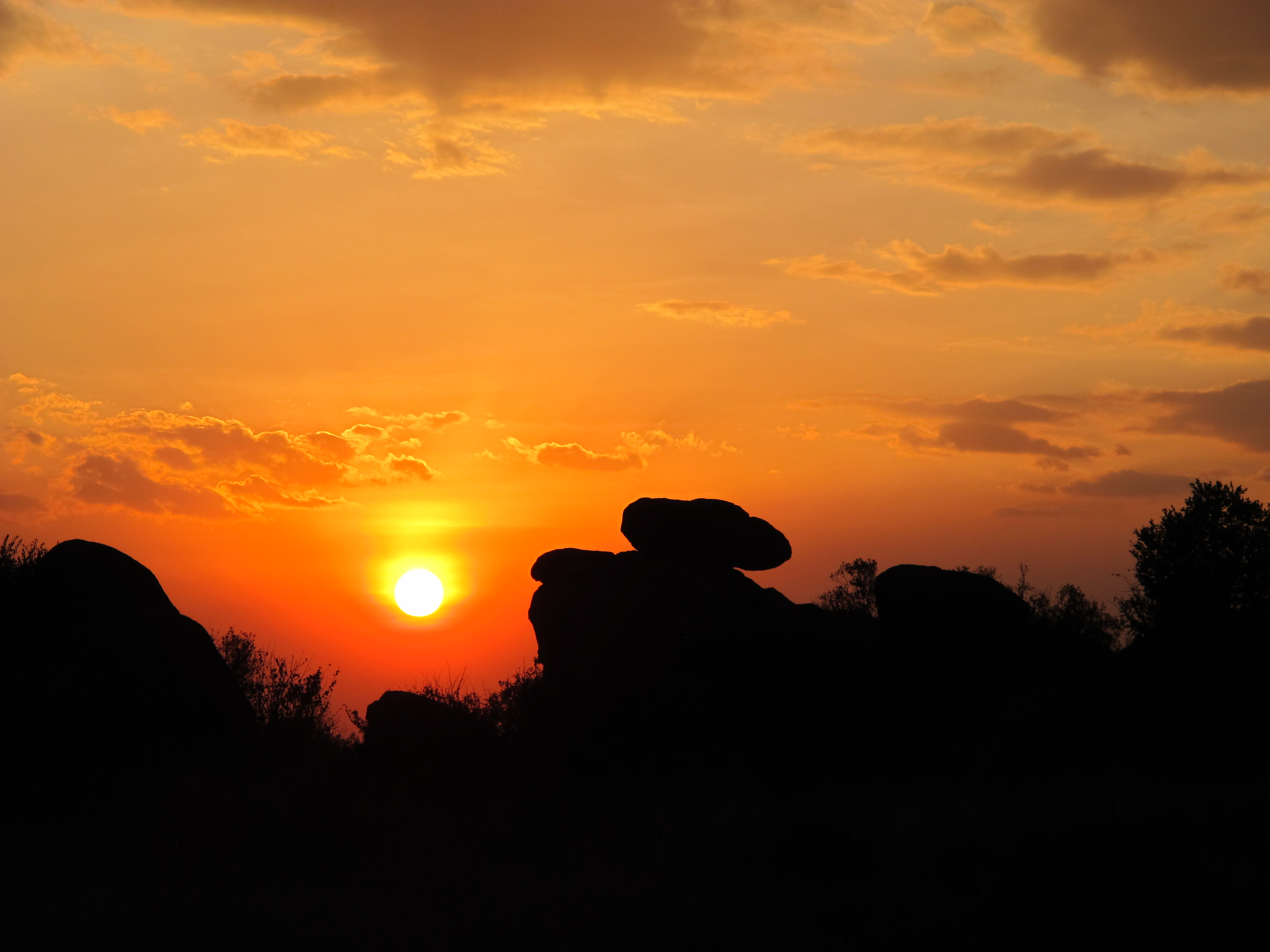 Sunset, while on Safari in Serengeti.